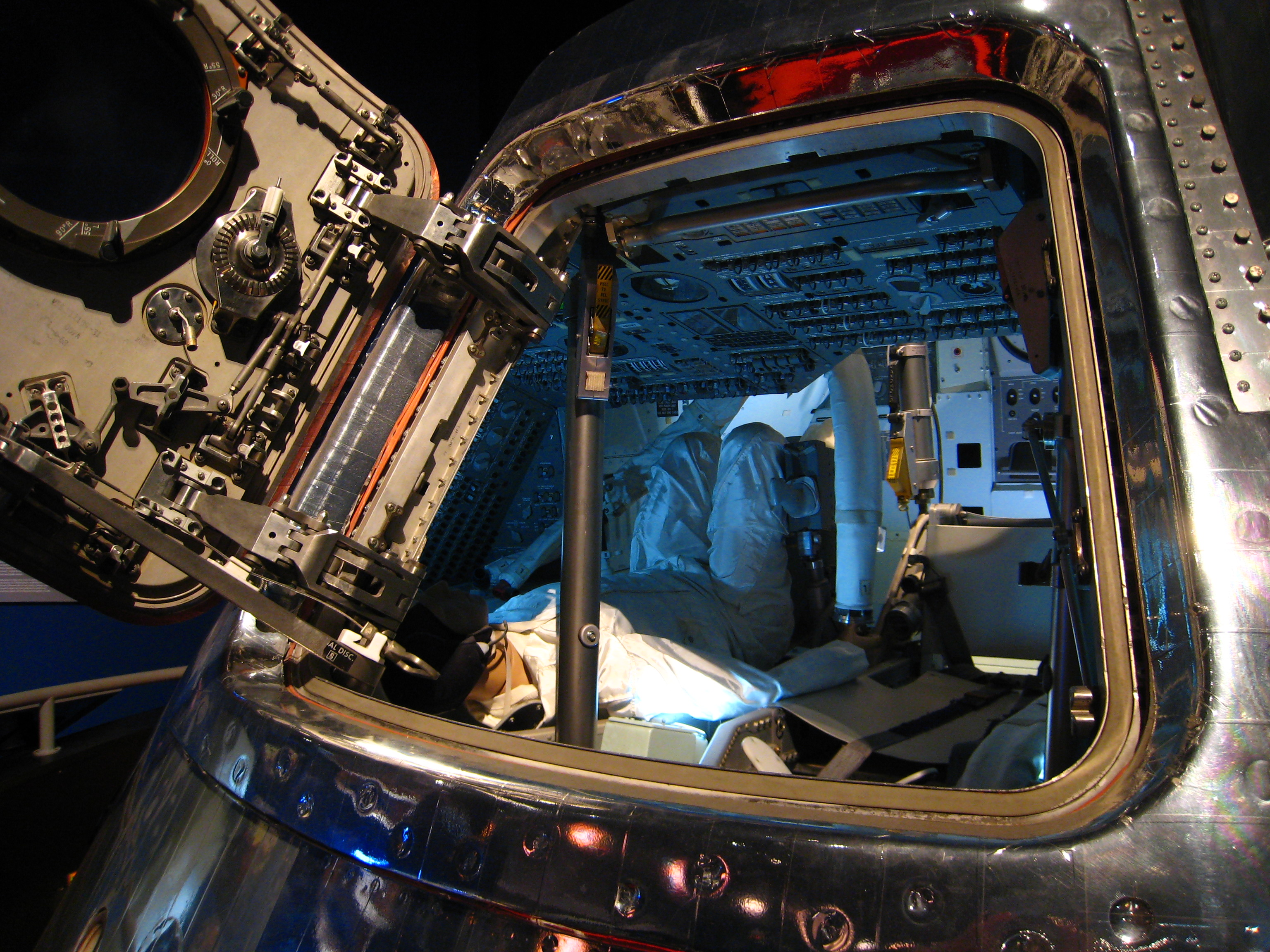 Inside view of the Block 1 Apollo Command Module, Serial #007. Built in 1966 by North American Rockwell, CM-007 is now housed at Seattle Museum of Flight, Seattle, WA, USA.[1]